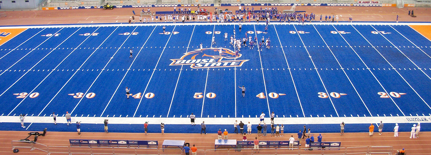 The blue turf of Bronco Stadium during a Boise State football scrimage prior to the 2010 season in late August. The turf is brand new for the 2010 season.